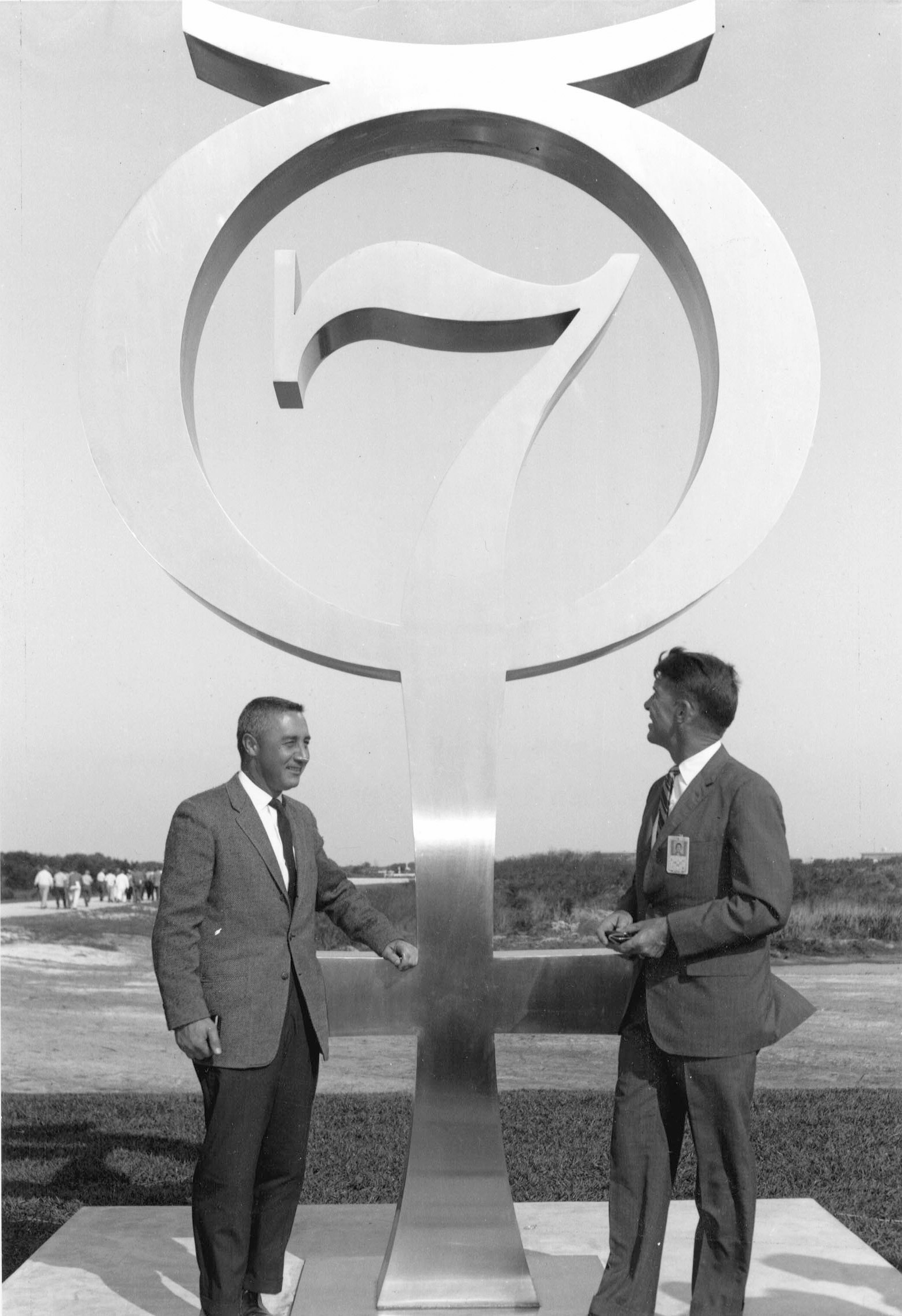 Gus Grissom and Wally Schirra at Mercury monument at LC-14, 1964